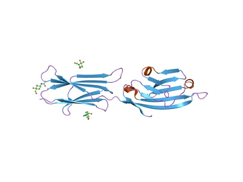 Cartoon representation of the molecular structure of protein registered with 1dr9 code.